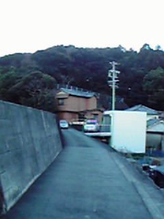 This is the start point of mie Prefectural Route 769 Nakatsuhamaura-Gokasho line.